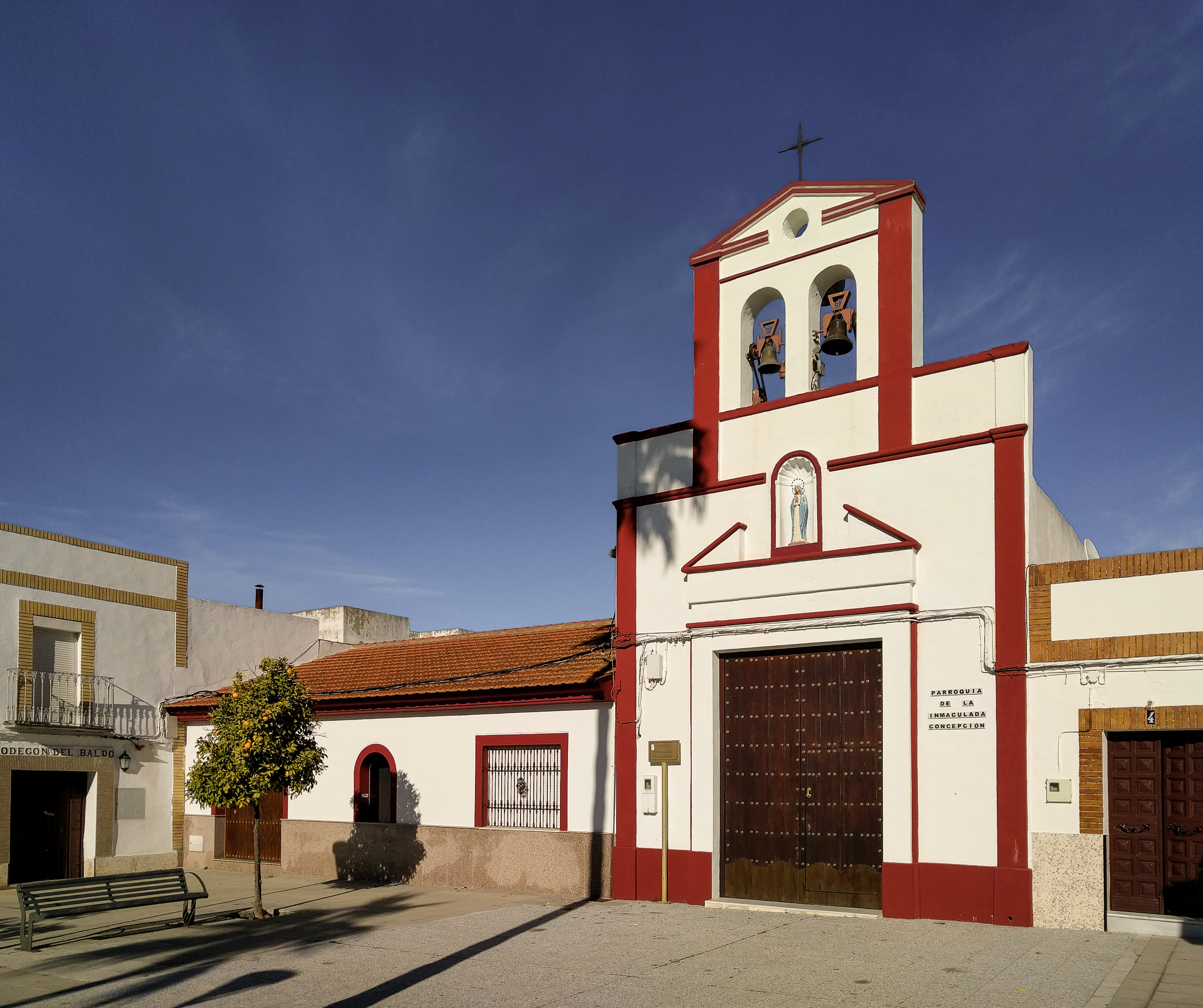 Exterior View of Iglesia Parroquial de la Inmaculada Concepcion en Aldea Quintana, Cordoba (Spain).